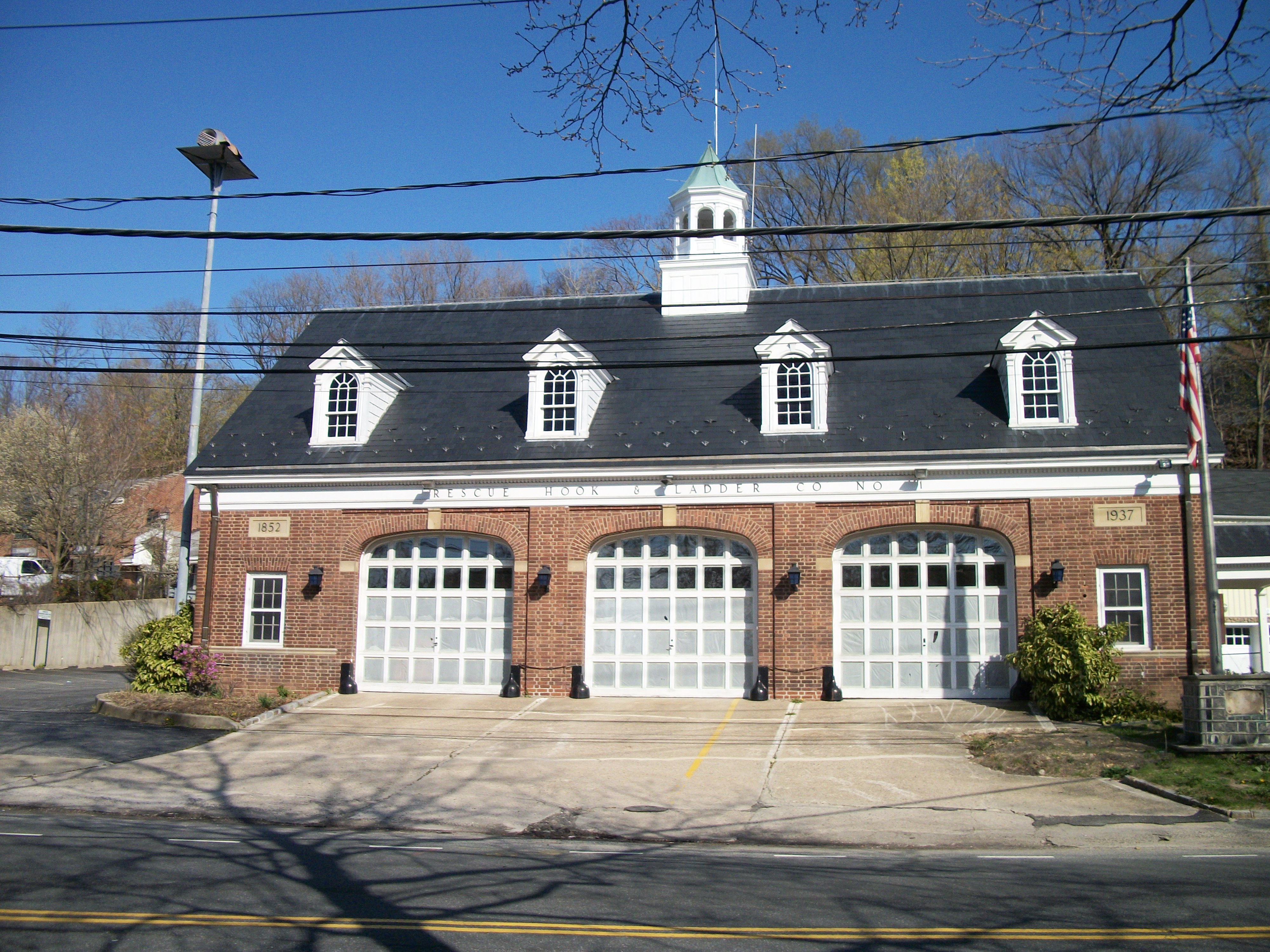 The 1937-built Rescue Hook & Ladder Company #1 Firehouse in Roslyn, New York, which is listed on the National Register of Historic Places.